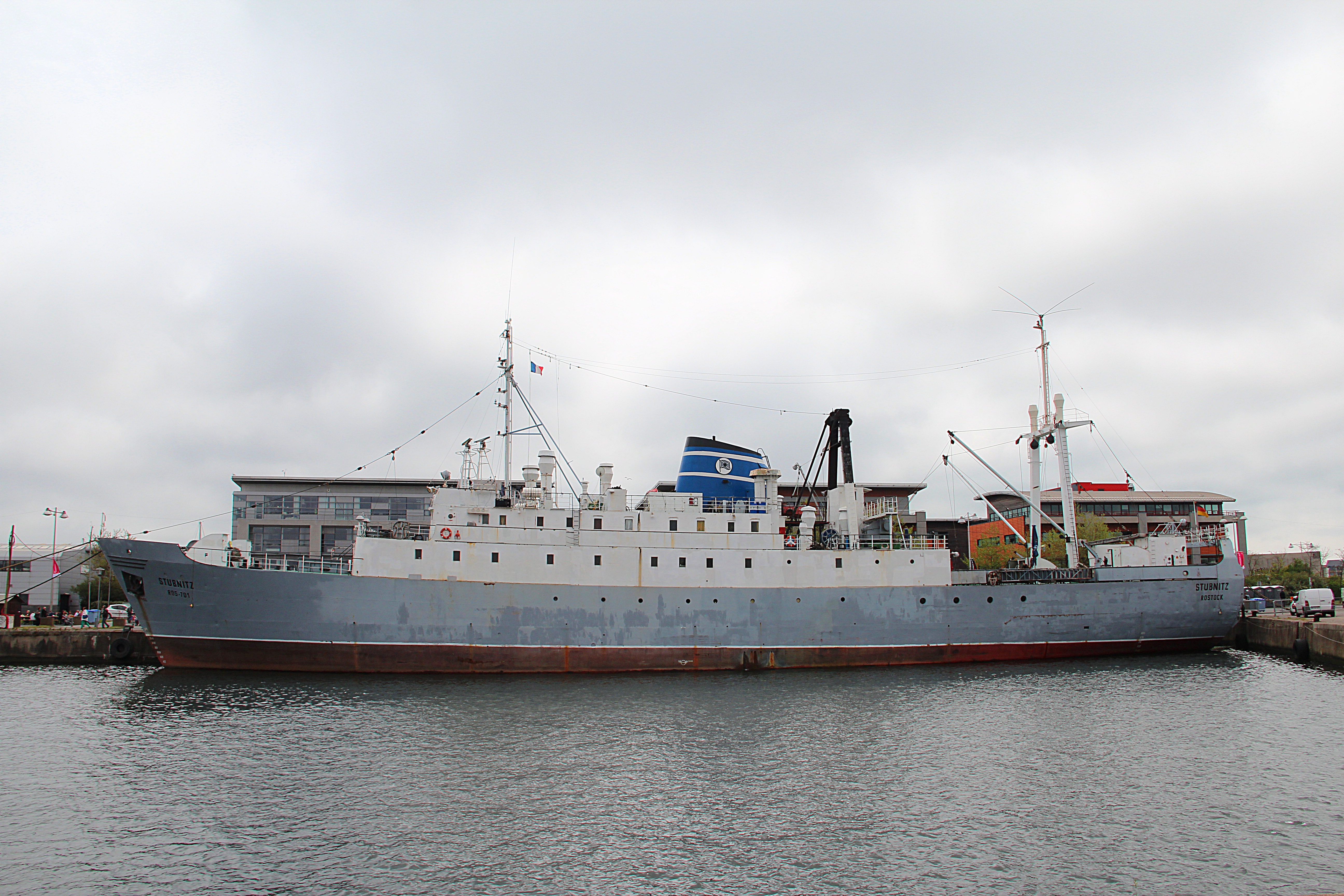 The Stubnitz refrigerated vessel, built in 1964 by the firm VEB Volkswerft Stralsund in Sassnitz in East Germany, transformed after reunification into a socio-cultural event vessel since 1992. Photograph taken on June 1, 2013 during the great maritime gathering in Dunkirk.